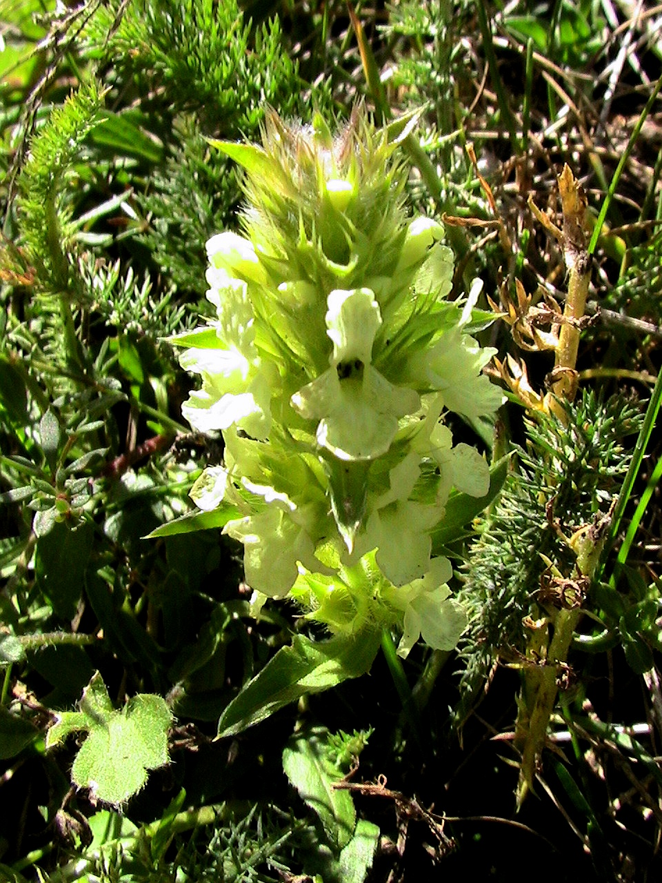 Sideritis hyssopifolia. In la Bòfia, la Coma i la Pedra (Solsonès - Catalunya). To 1.810 m. altitude